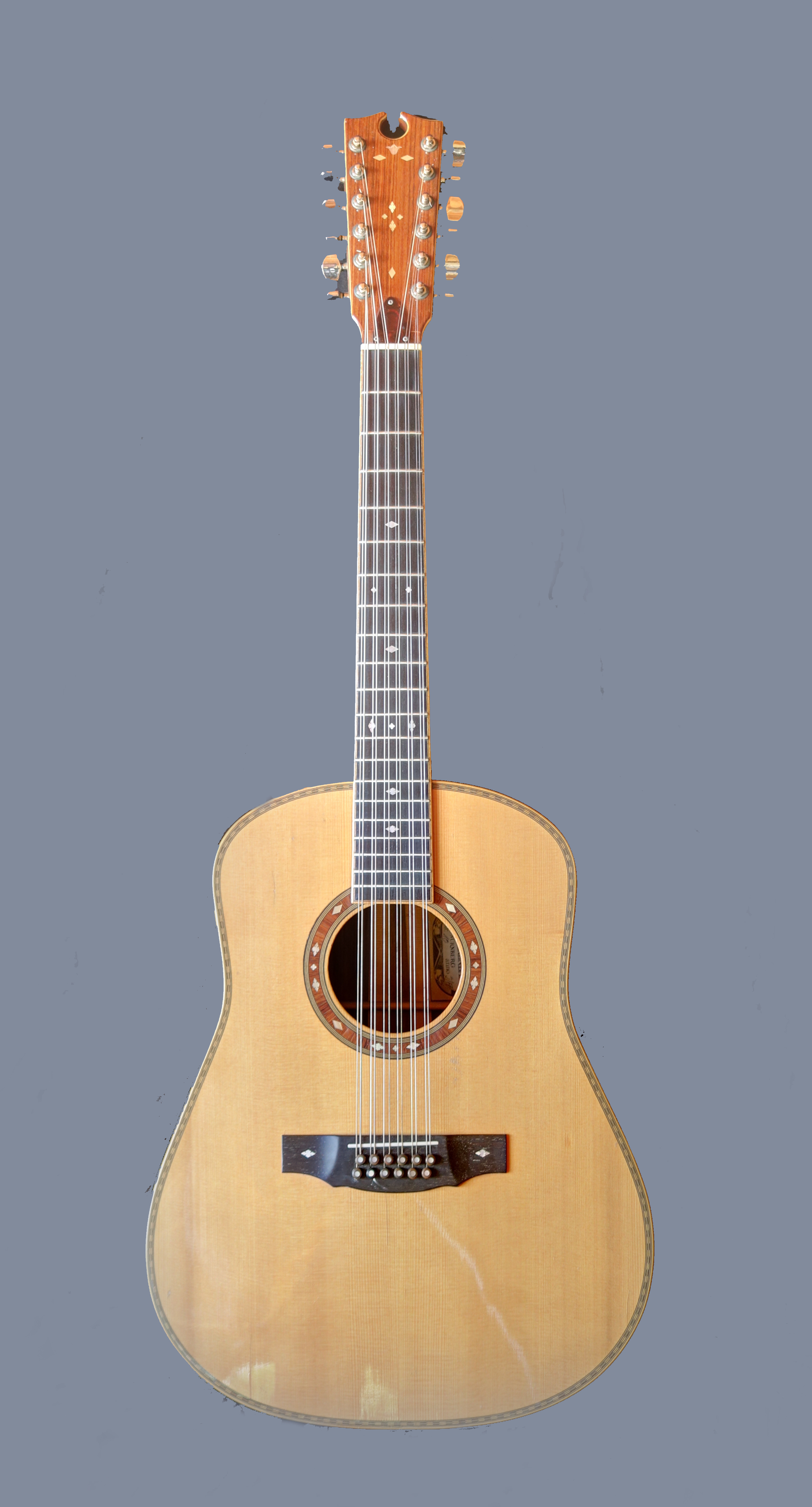 12string Guitar from Lutier Roland Oeter, Nuremberg, Germany. Build Juli 1977. Nr. 10.